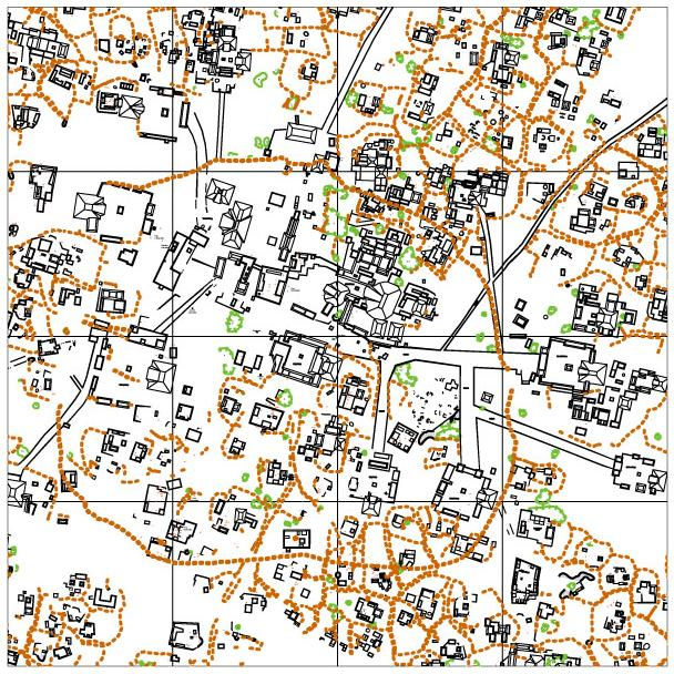 Map of the ancient Maya site of Chunchucmil. This particular map covers only the central 1 km2 of the pre-Hispanic city. The orange-brown color indicates ancient stone walls. Light green indicates depressions (such as quarries or sascaberas). Black lines indicate ancient architecture.